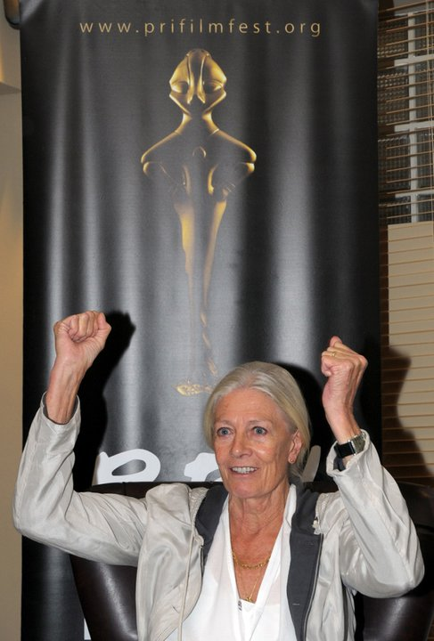 Vanessa Redgrave at the first edition of PriFest